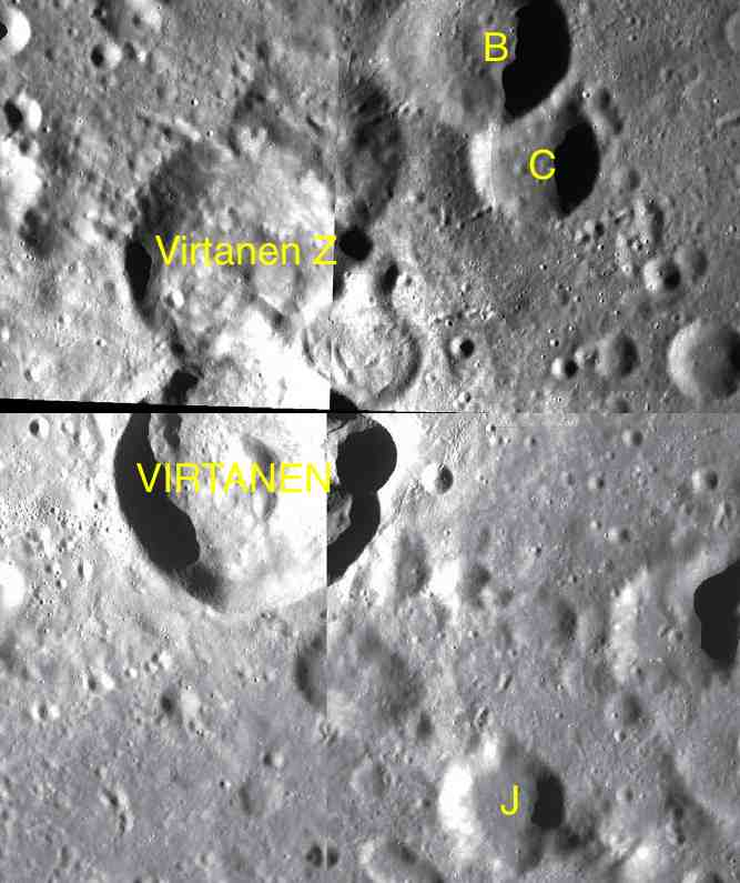 Parts of the charts LAC-50, LAC-68 used for the presentation